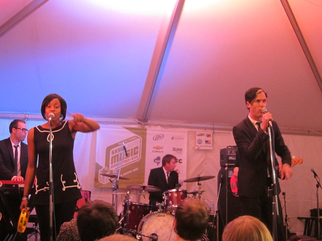 Fitz and The Tantrums at South by Southwest in 2010.